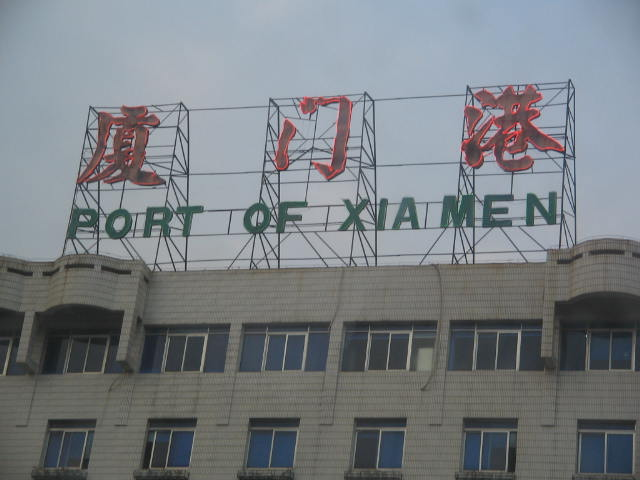 廈門港牌 Port of Xiamen sign, on top of a building.